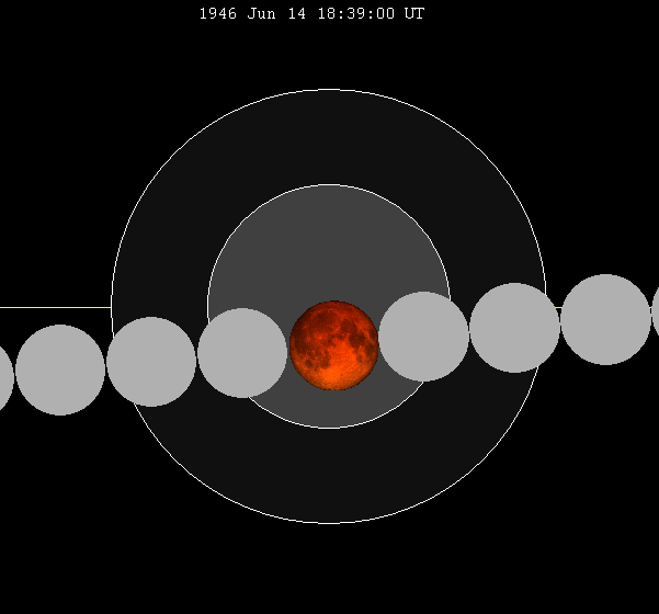 June 1946 lunar eclipse chart of moon's lunar eclipse path through the earth's shadow. thumb